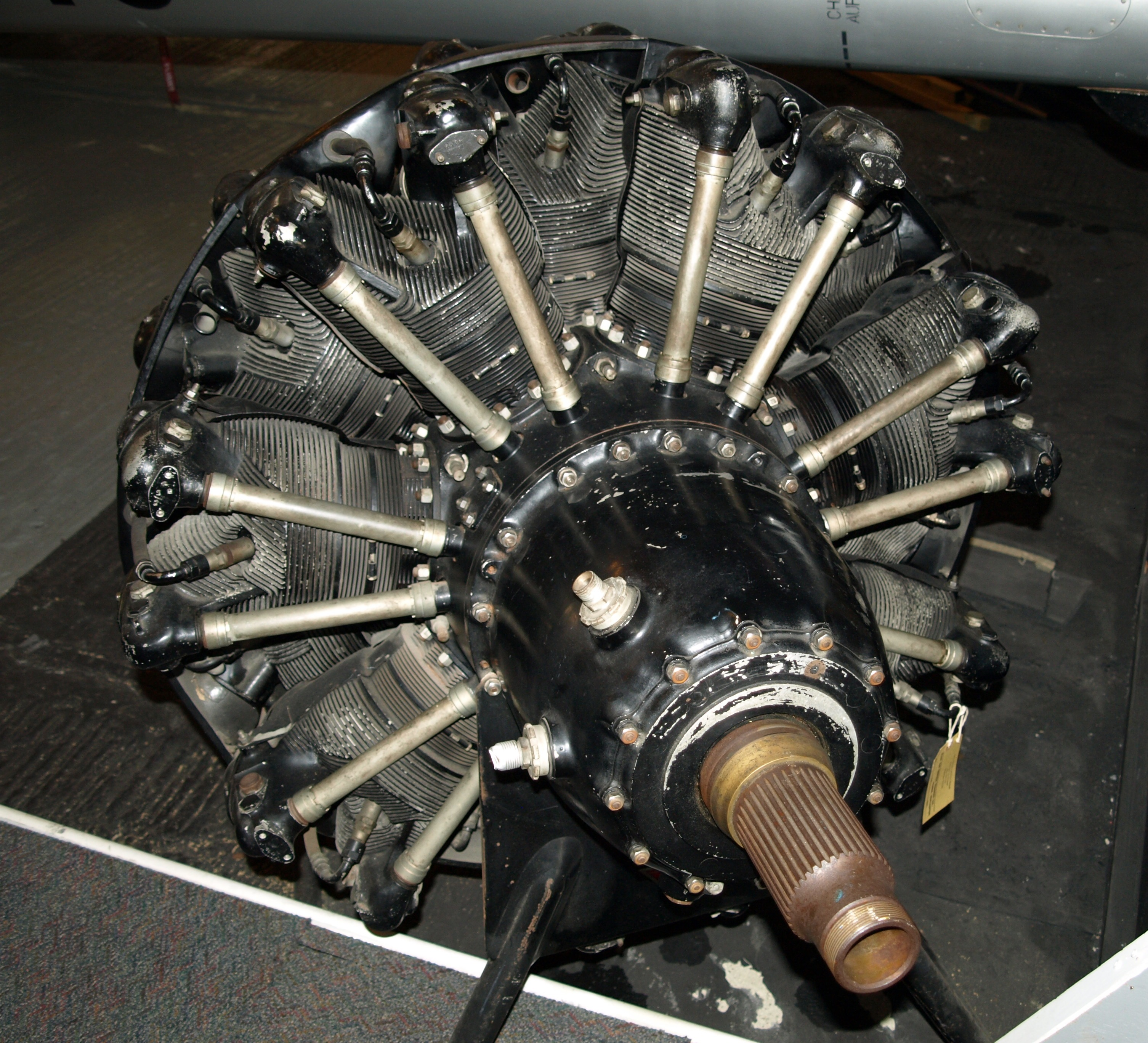 Alvis Leonides Major radial aero engine on display at the Solent Sky museum